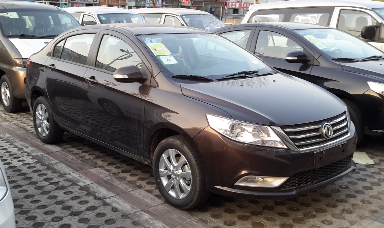 Dongfeng Fengshen A30 photographed in Beijing, China.